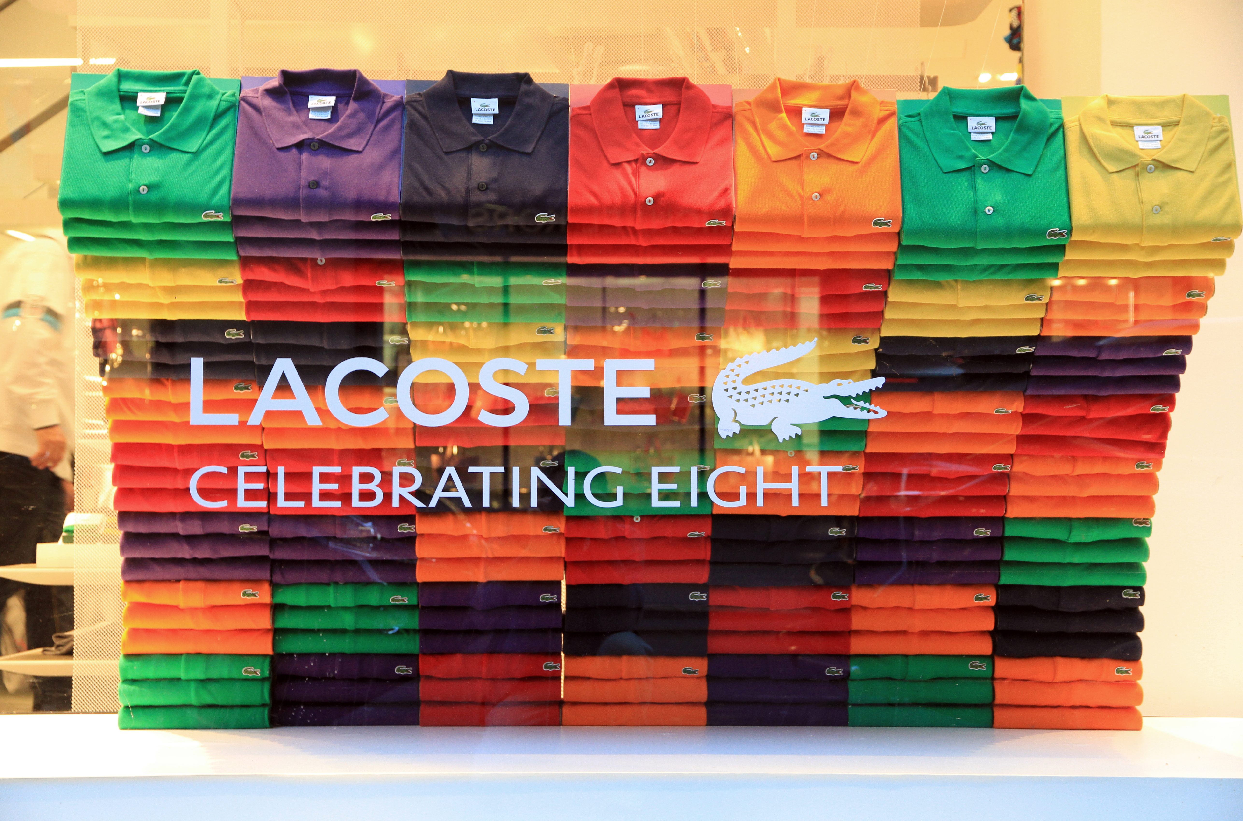 5th Avenue, NYC, 2013